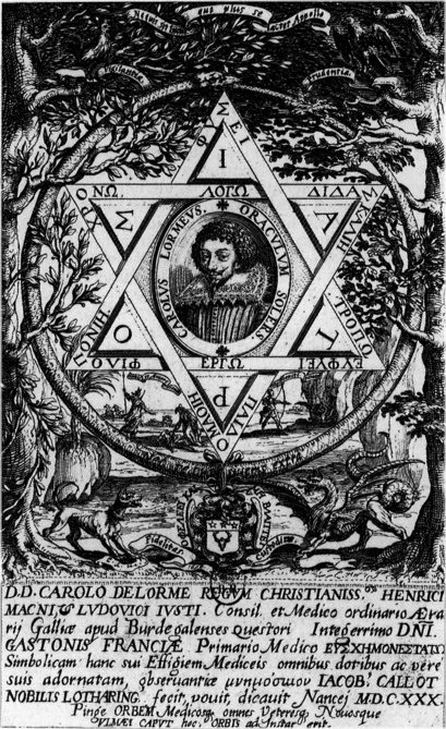 Charles DeLorme (1584–1678), French physician, portrait 1630